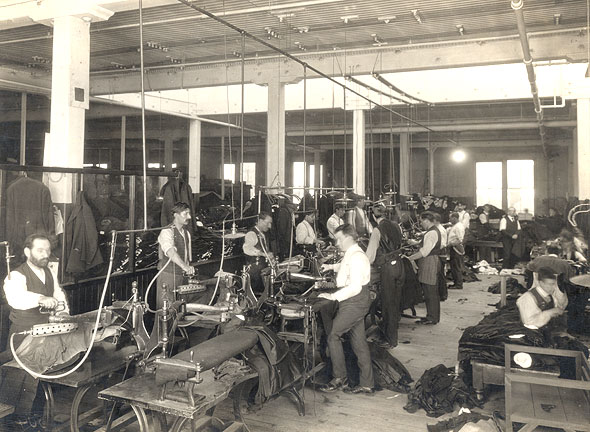 Interior of one of the Eaton's factories, Eaton's department store, Toronto, Canada, Title: "Eaton's manufacturing-tailoring and sewing department-pressers"